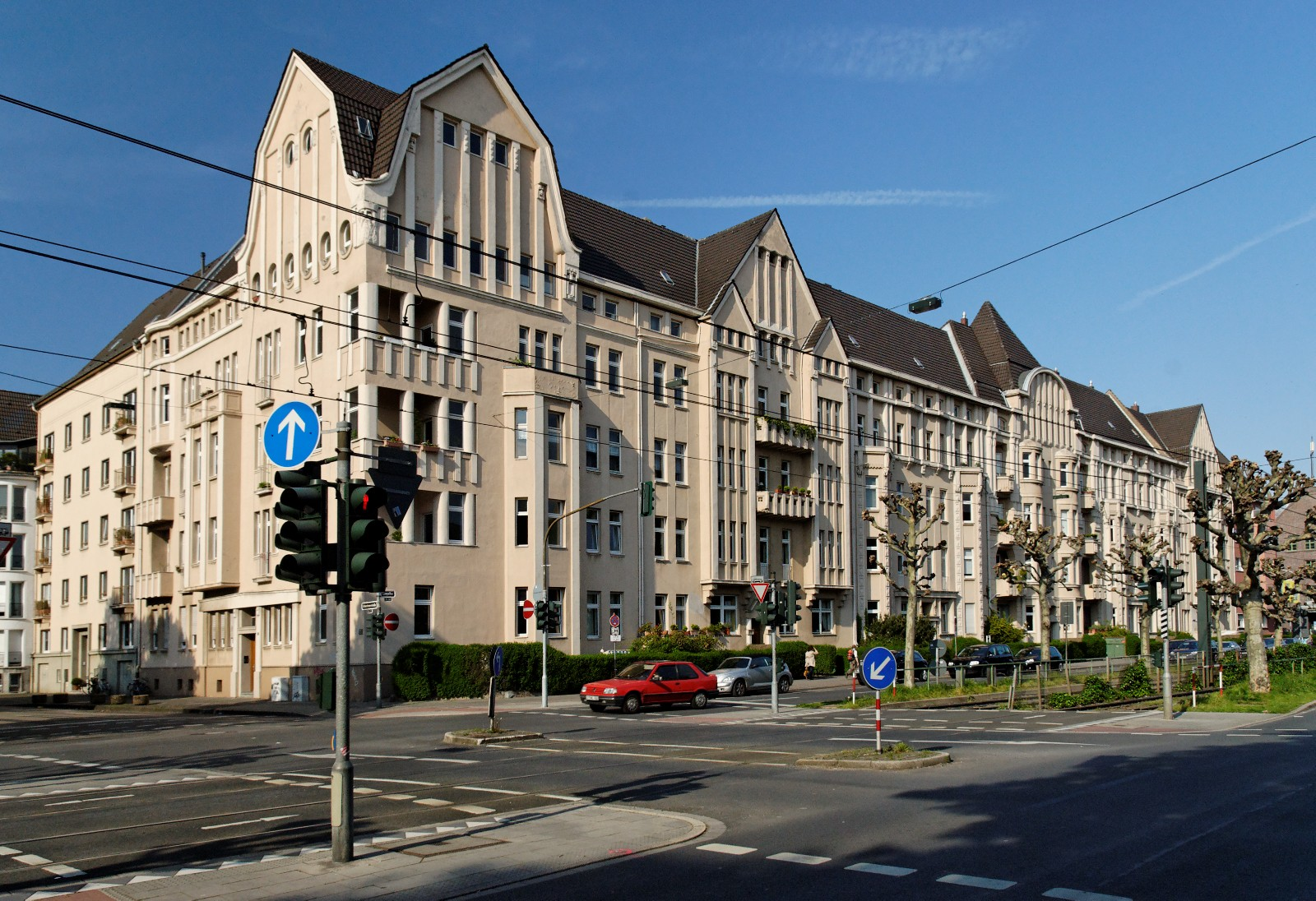 Kyffhäuser block in Düsseldorf-Oberkassel, Germany